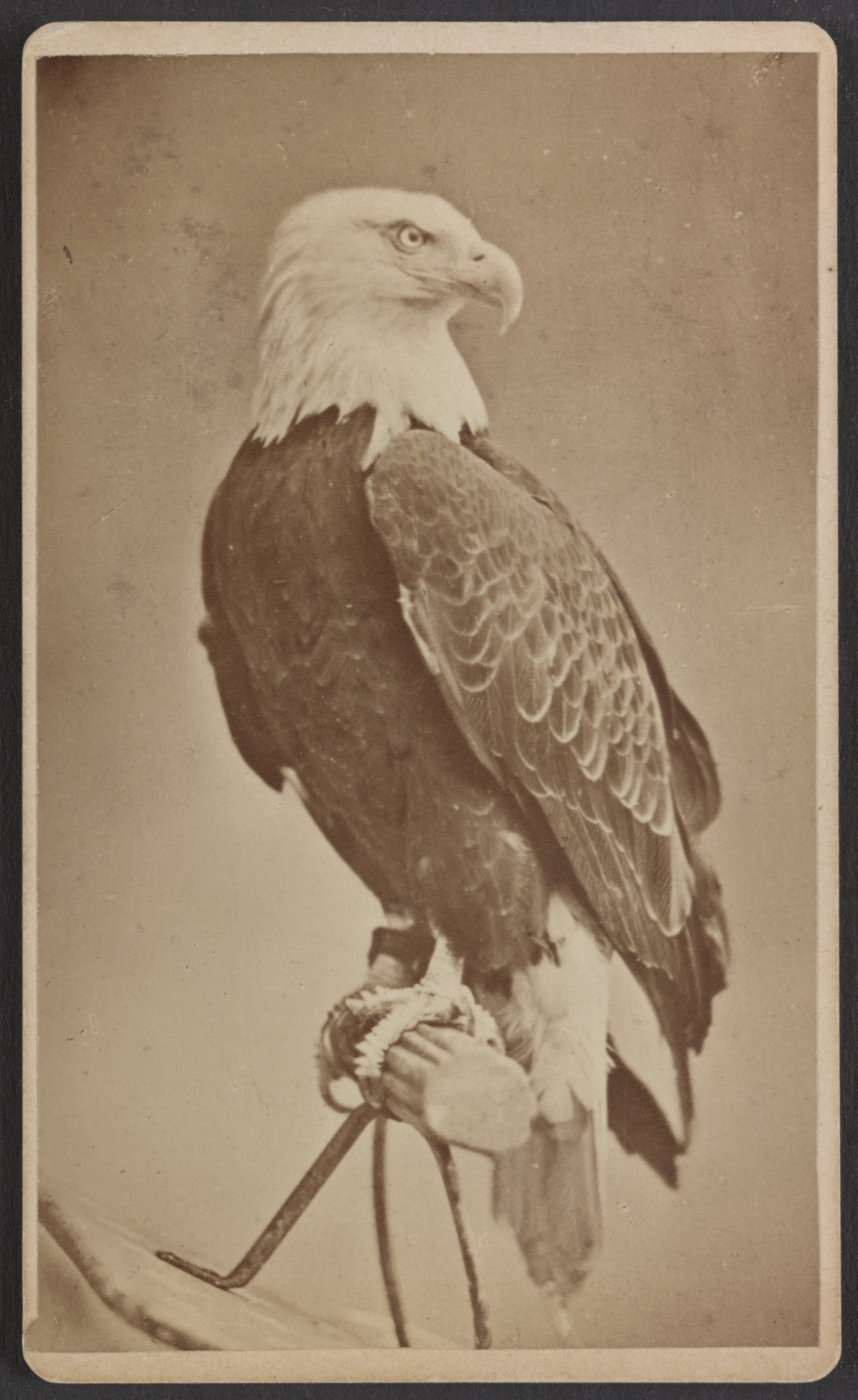 Title: Old Abe, the live war eagle of Wisconsin, from the Centennial Abstract/medium: 1 photographic print on carte de visite mount : albumen ; 10.5 x 6.3 cm.